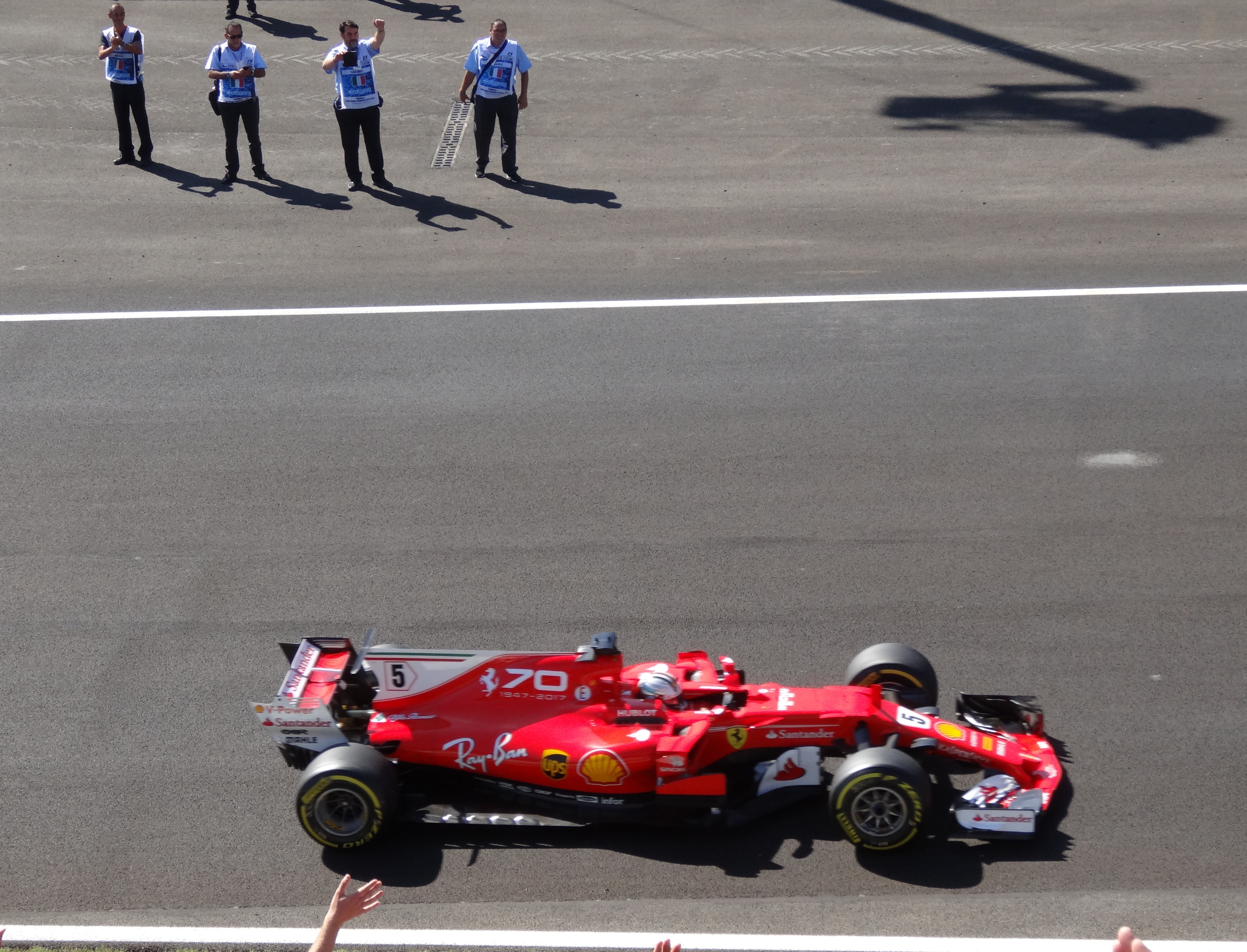 Vettel Ferrari Monza 2017